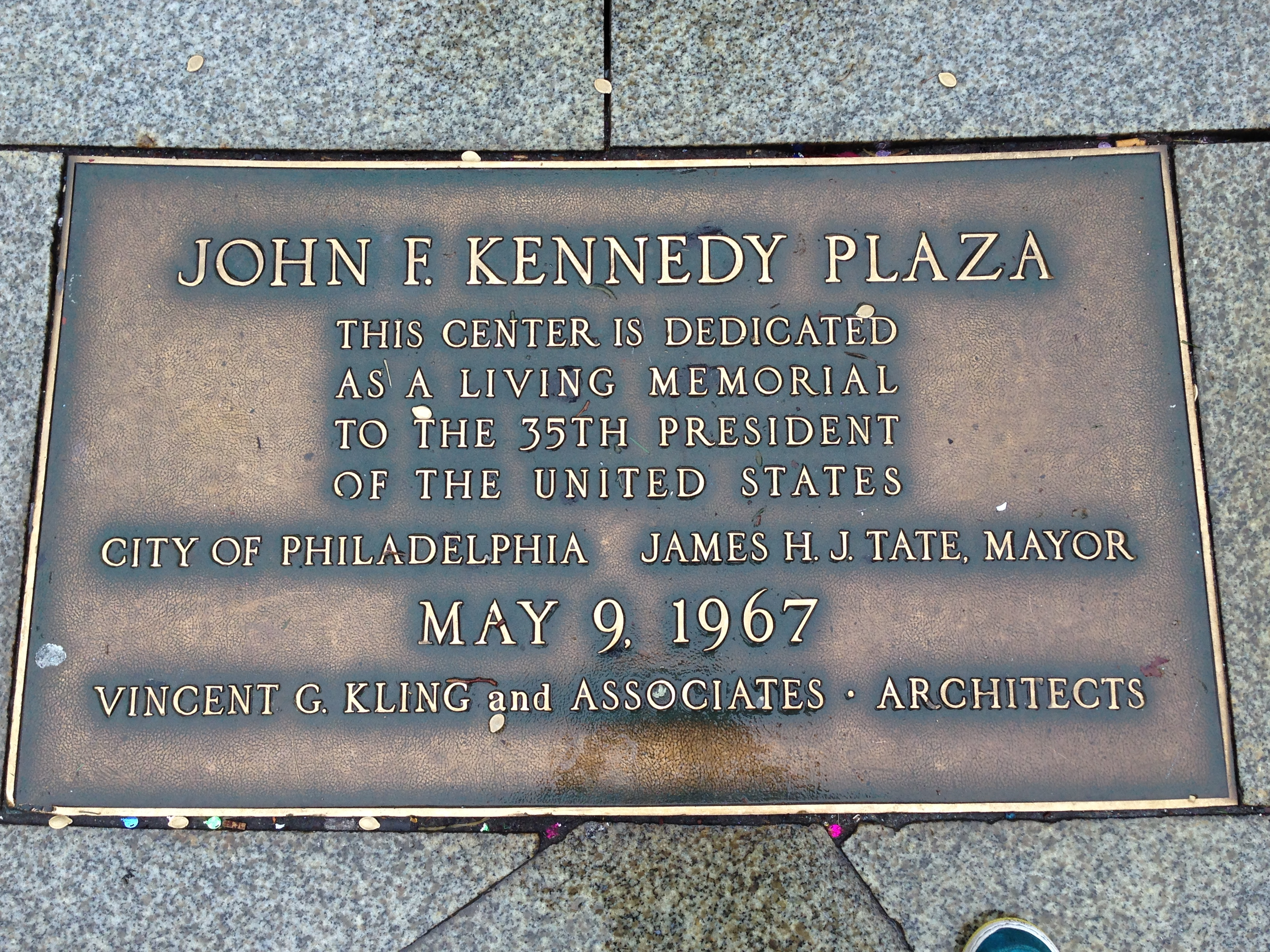 A photo of the plaque at LOVE Park (official name: JFK Plaza) in Philadelphia, Pennsylvania, United States of America.